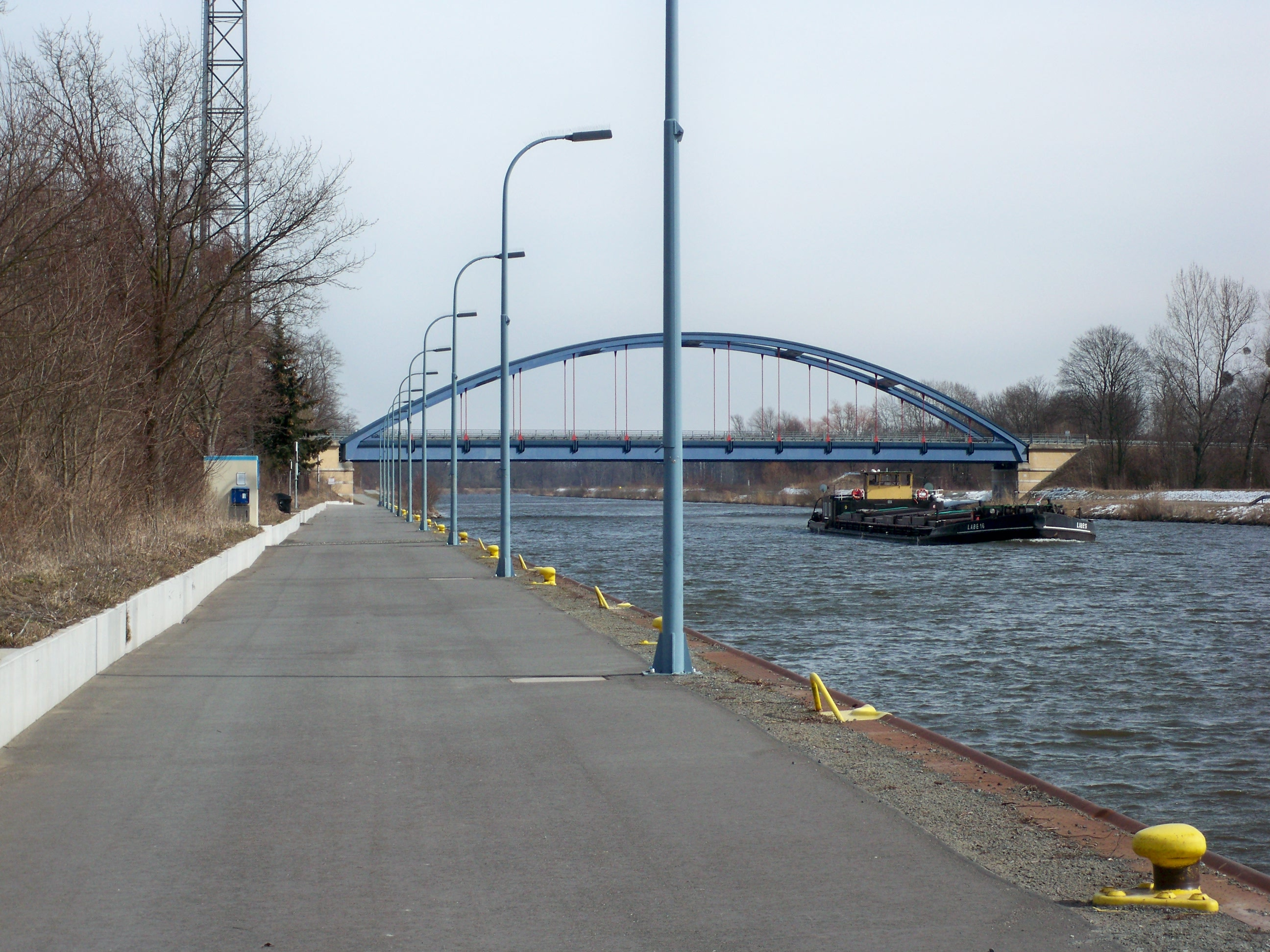 Rühen, Lower Saxony, Mittellandkanal